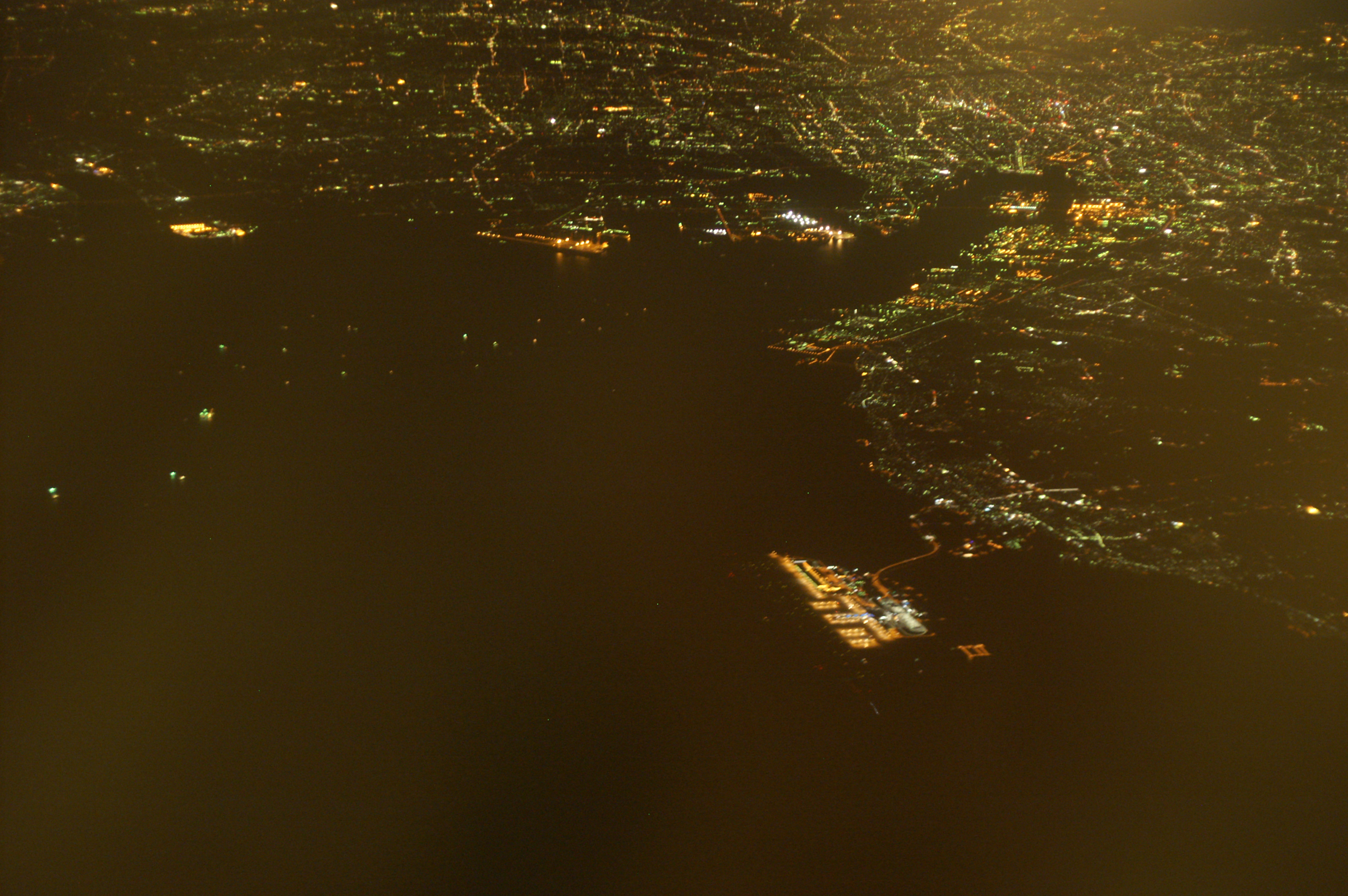 Night view of the Chubu Centrair (Nagoya) Airport and the surrounding area from a plane